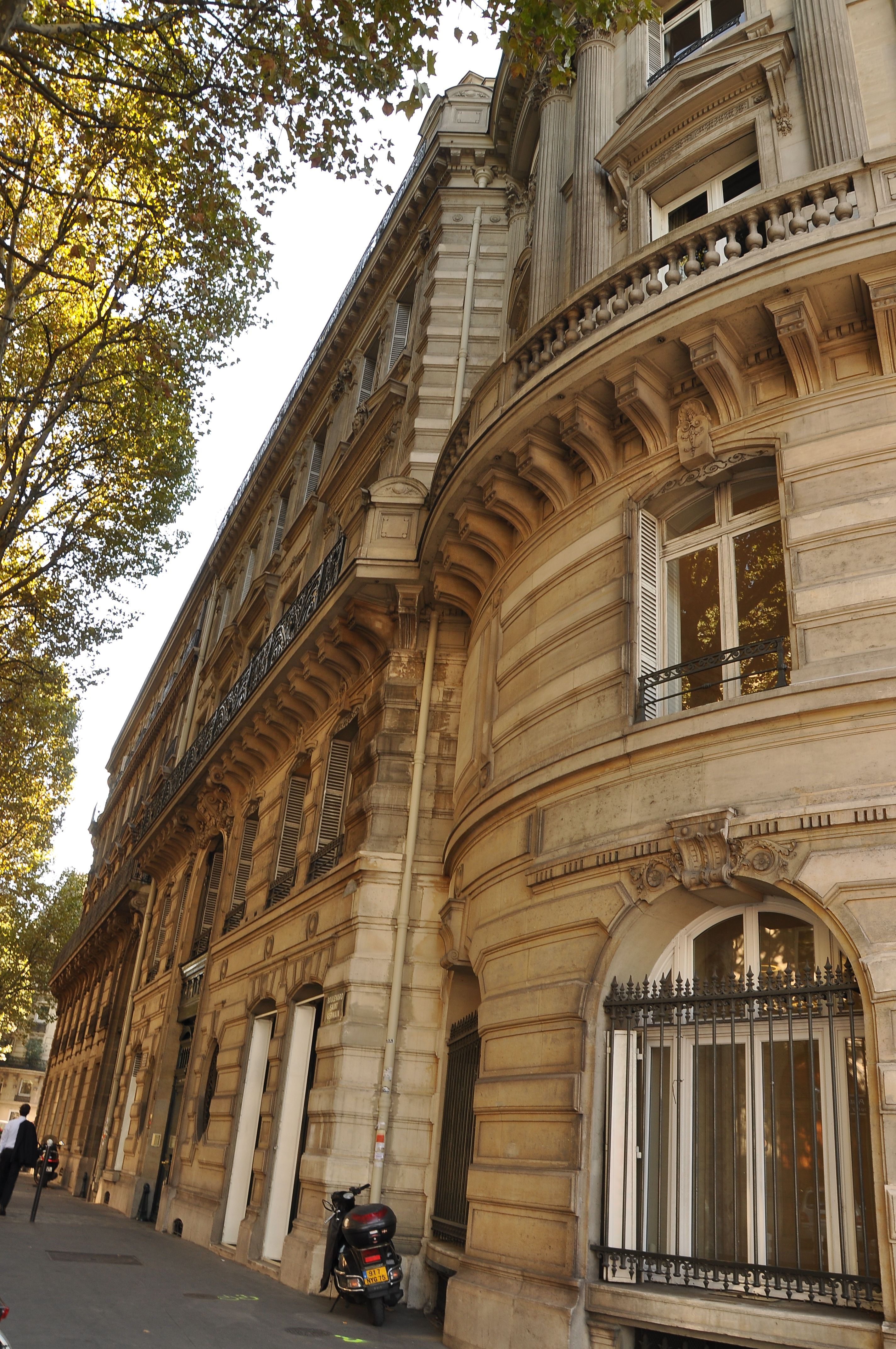 Building located at 243 Bd Saint-Germain in 7th district of Paris, France where lived Pauline Viardot, a mezzo-soprano and French composer, sine 1884 in her death in 1910